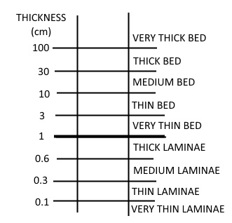 Thickness of bed and laminae sizes in centimeters